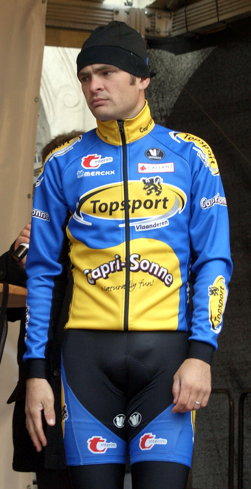 Koen Barbé